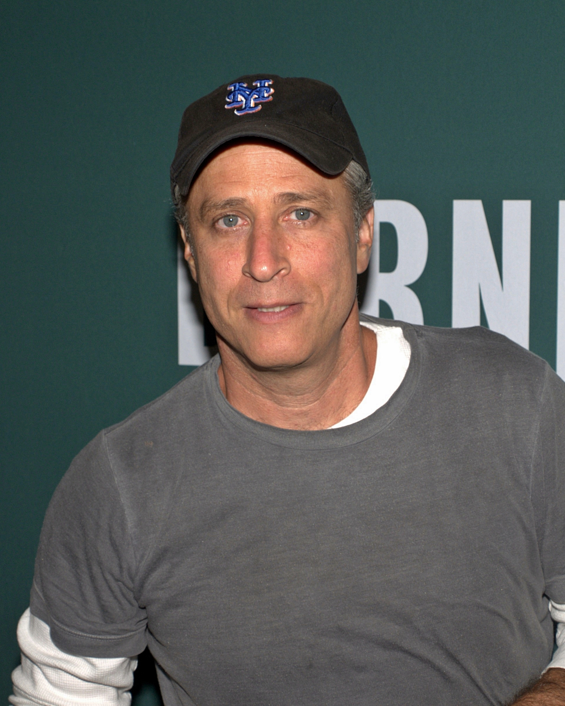 Jon Stewart at Barnes & Noble Union Square for the launch of Earth (The Book), the 2010 book from the writers of The Daily Show